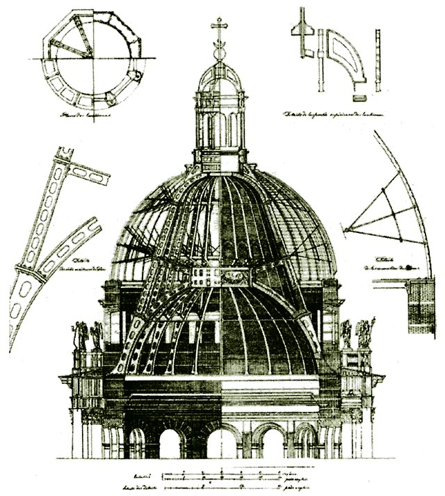 St.Isaacs Dome by Auguste de Montferrand